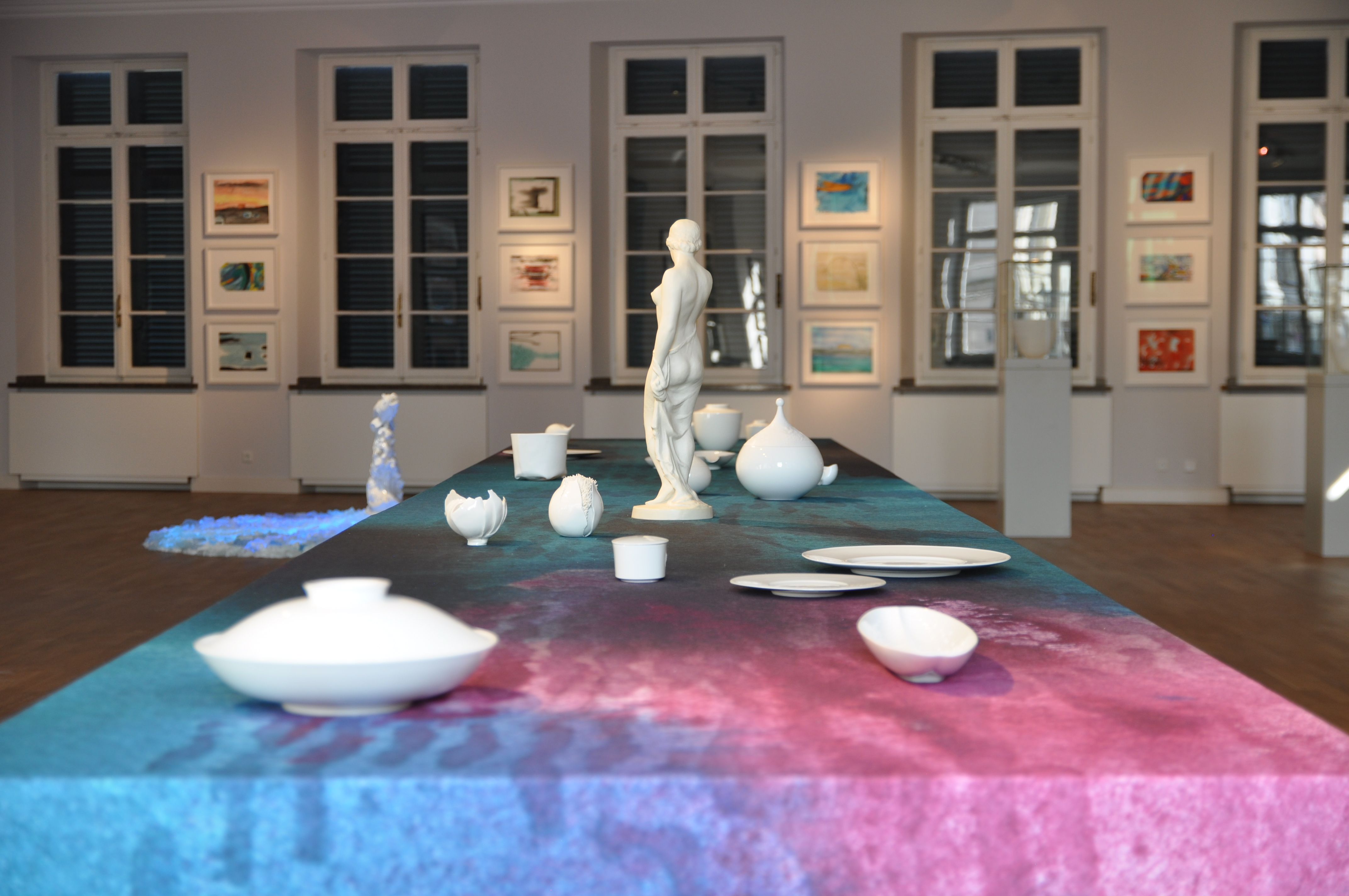 Ausstellung im HETJENS - Deutsches Keramikmuseum "Gabriele Henkel. Stilleben - Porzellan und Aquarelle" (2017)